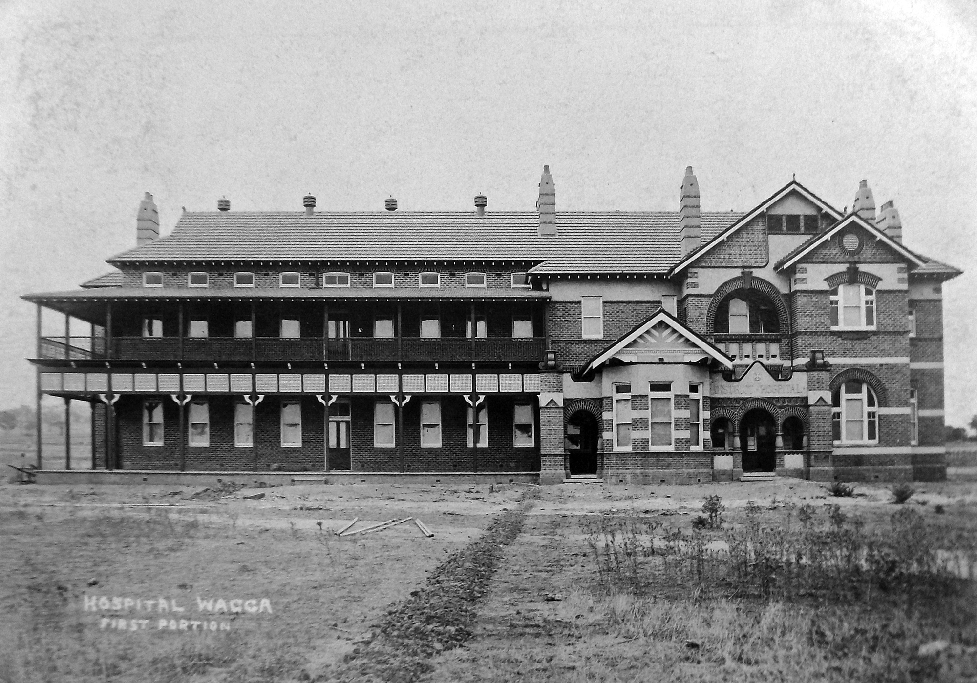 Wagga Wagga District Hospital in 1910.